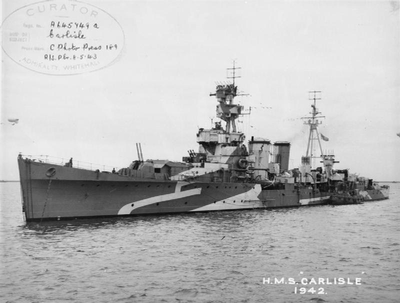 Royal Navy C-class light cruiser HMS Carlisle at anchor in Plymouth Sound